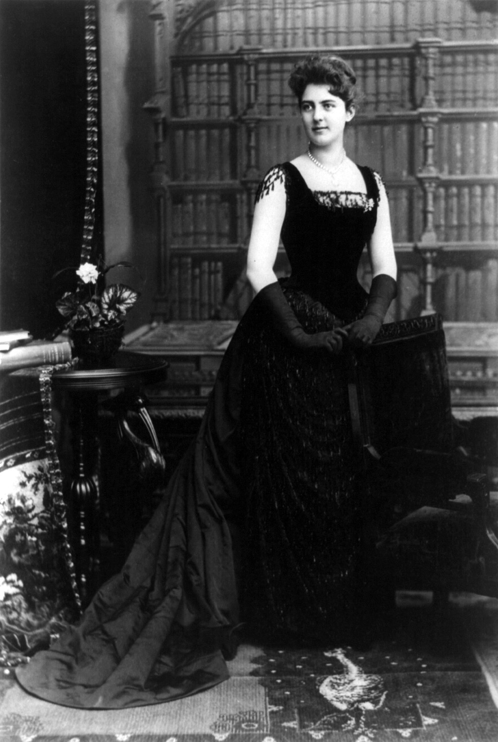 Frances Folsom Cleveland, First Lady of the United States